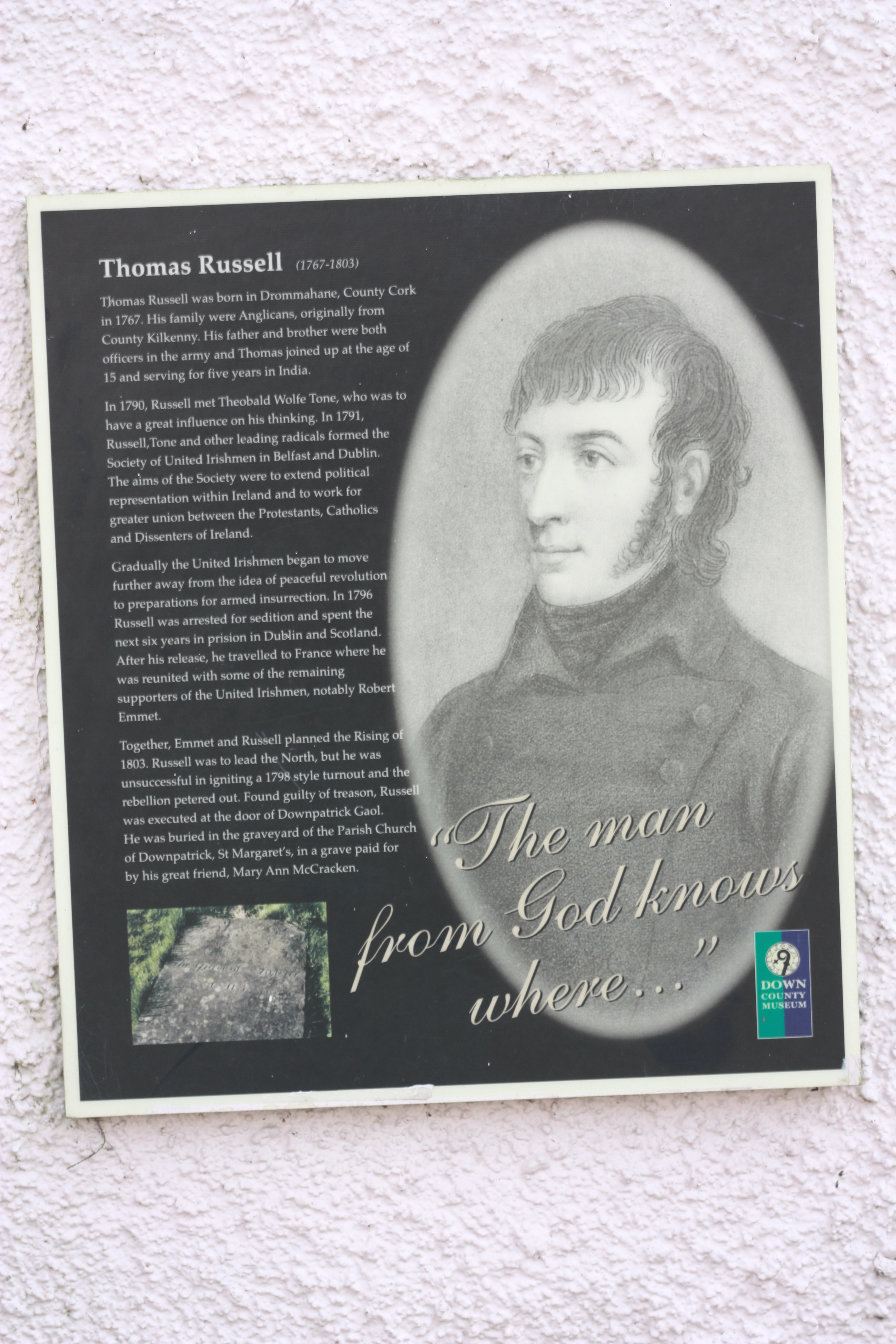 Information on Thomas Russell, Down County Museum, The Mall, English Street, Downpatrick, Northern Ireland, August 2009